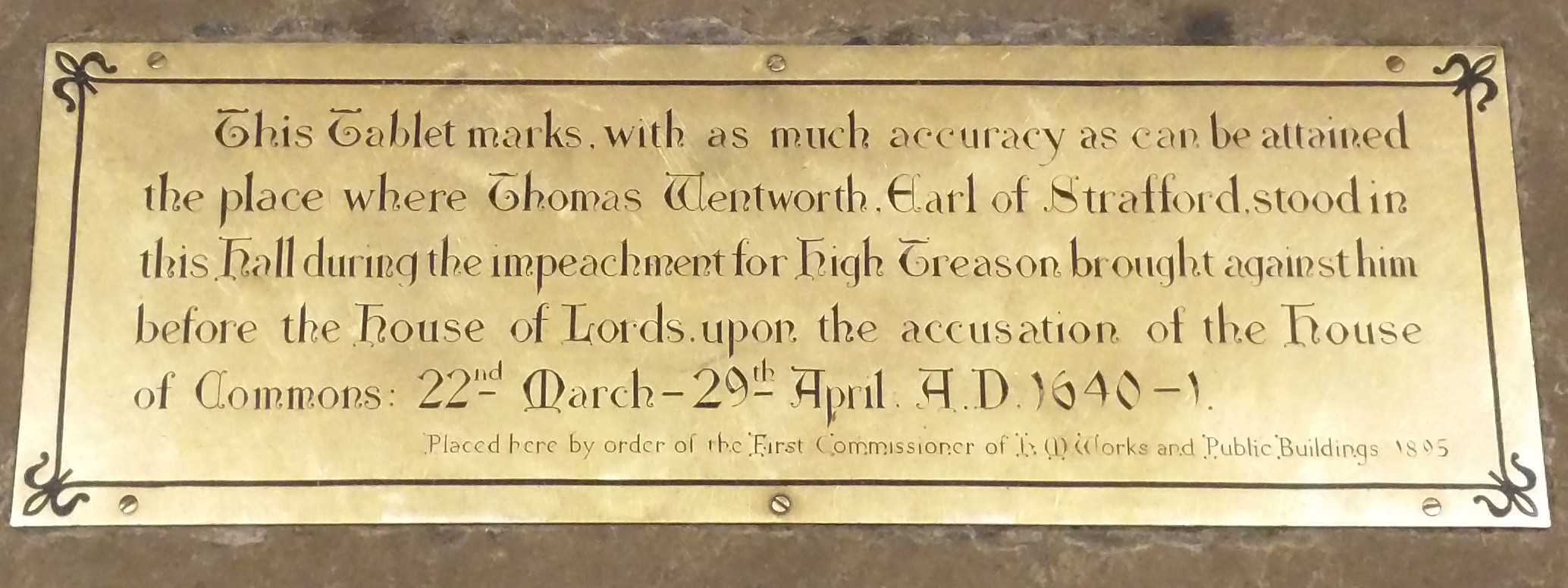 A bronze plaque screwed into the floor of Westminster Hall. The inscription reads "This Tablet marks, with as much accuracy as can be attained the place where Thomas Wentworth, Earl of Strafford, stood in this hall during the impeachment for High Treason brought against him before the House of Lords, upon the accusation of the House of Common: 22nd March - 29th April AD 1640-1"